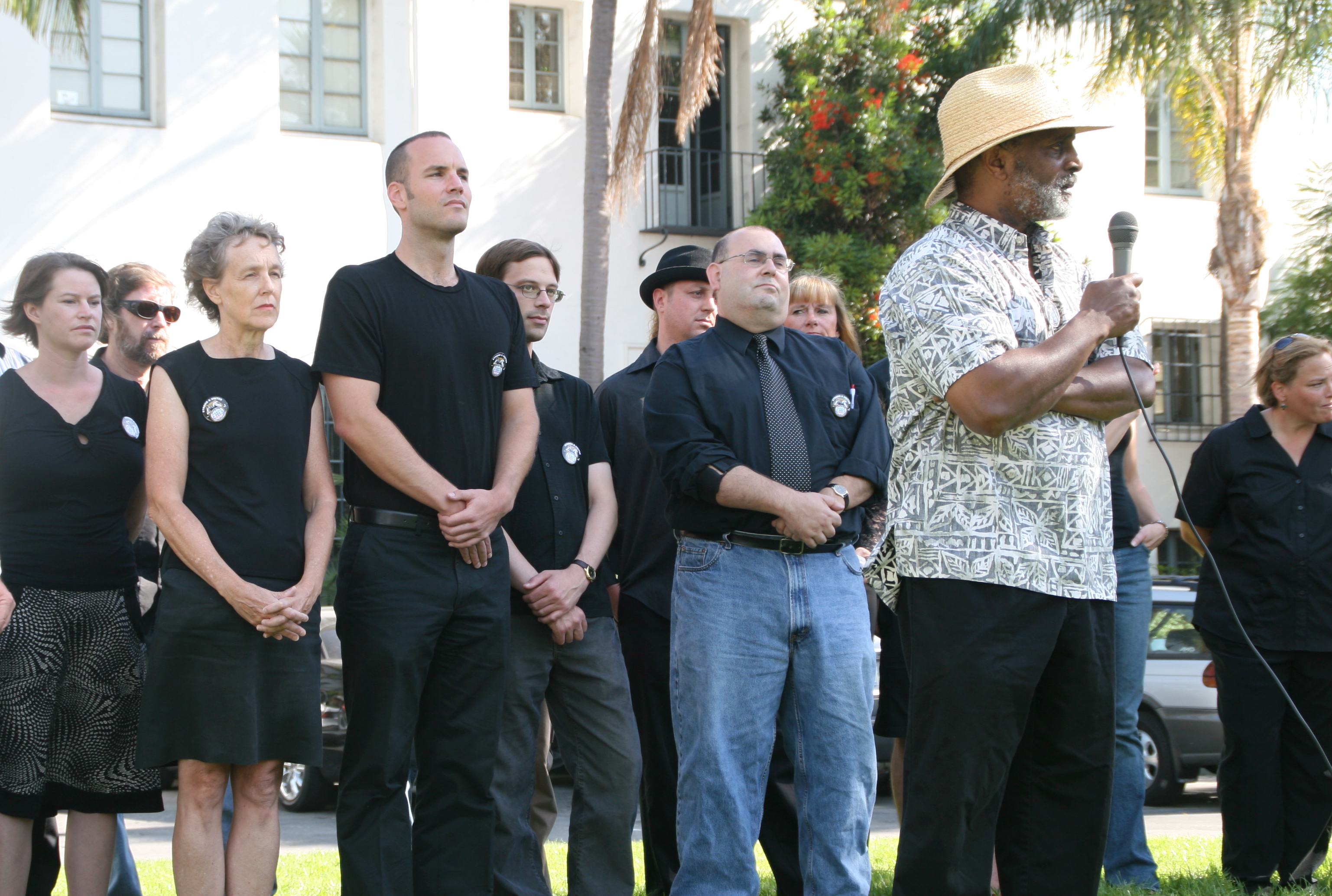 Author: Doc Searls URL